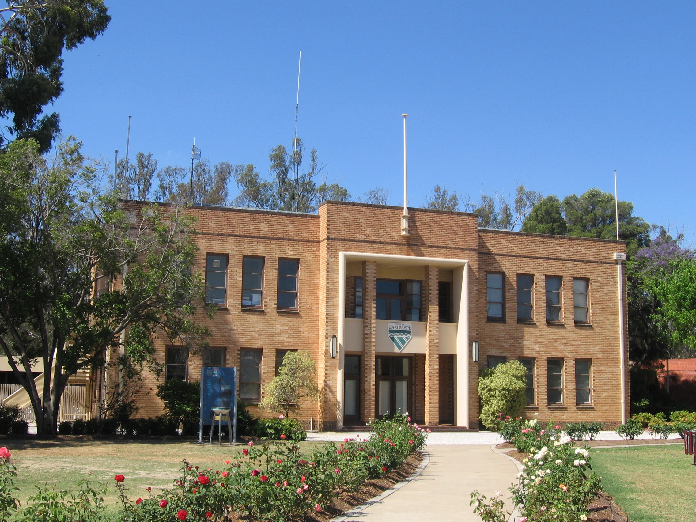 Campaspe Shire office at Echuca, Victoria